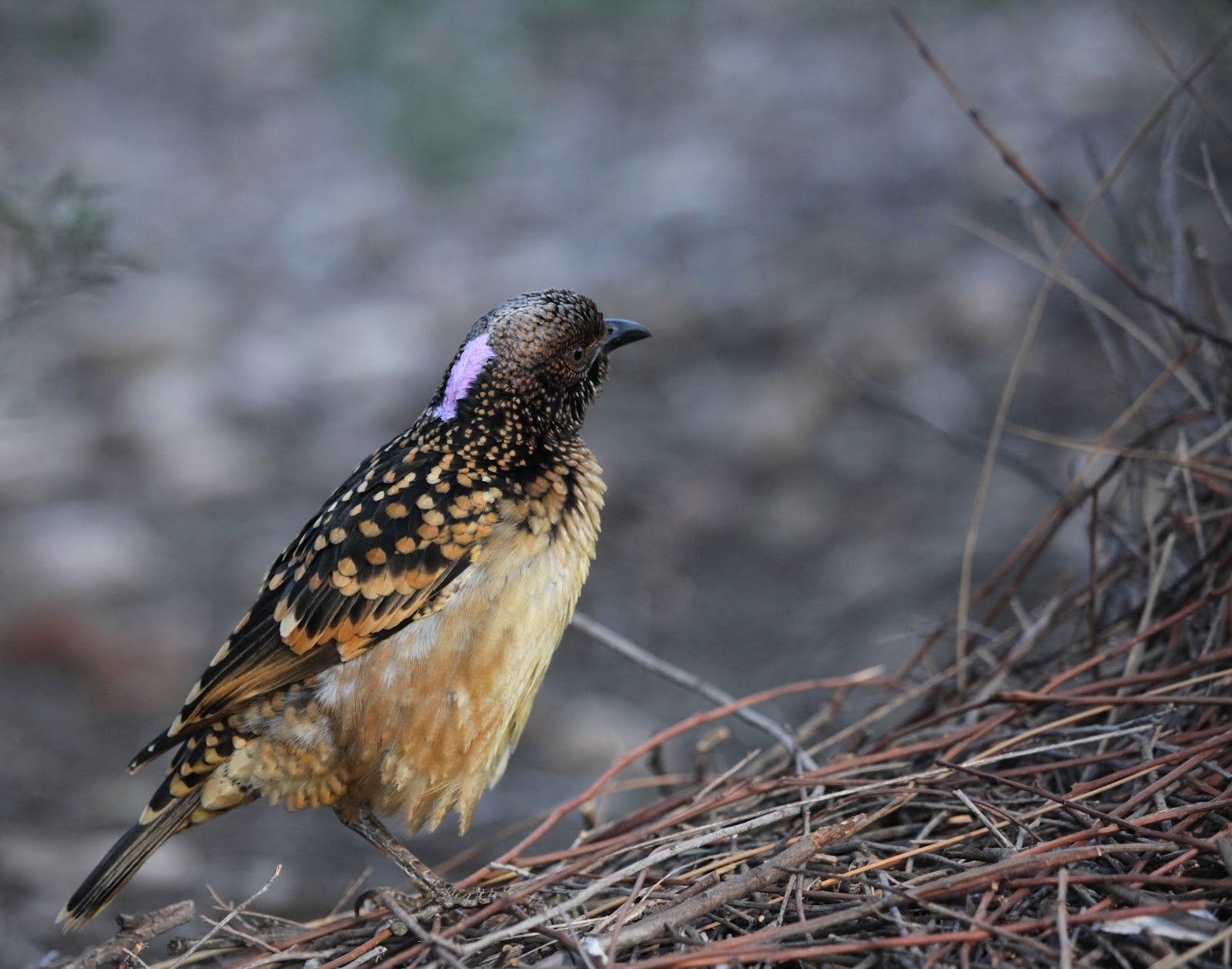 Western Bowerbird (Chlamydera guttata), Northern Territory, Australia